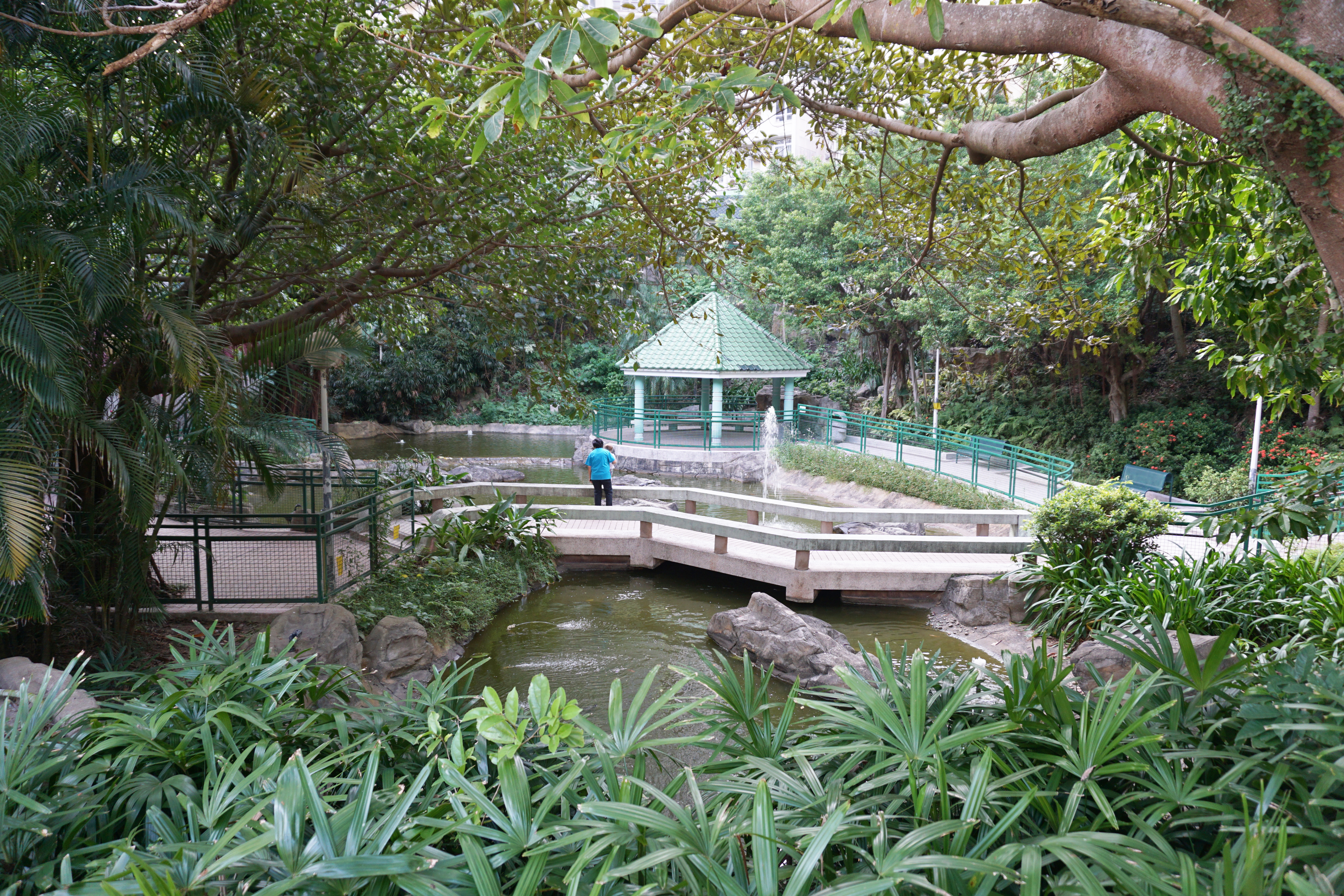 Lung Tak Court in Stanley, Hong Kong.